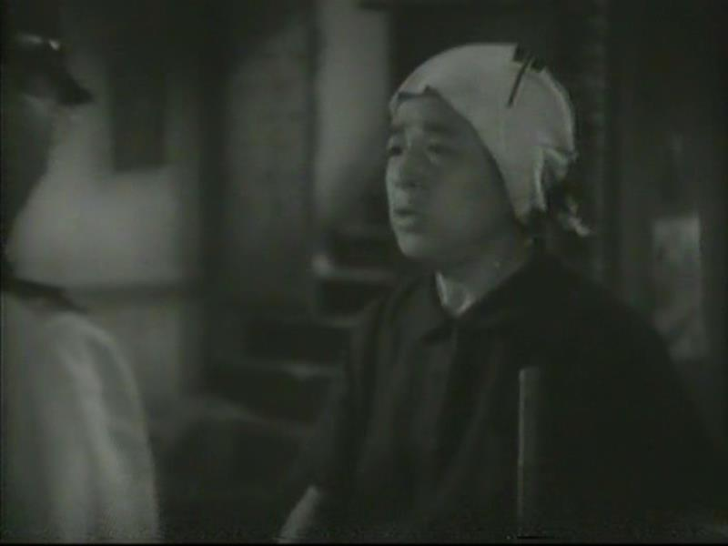 Chieko Higashiyama from Toho film "Raigekitai Shitsudo (Mobilization of torpedo bomber Corps)"(1944).